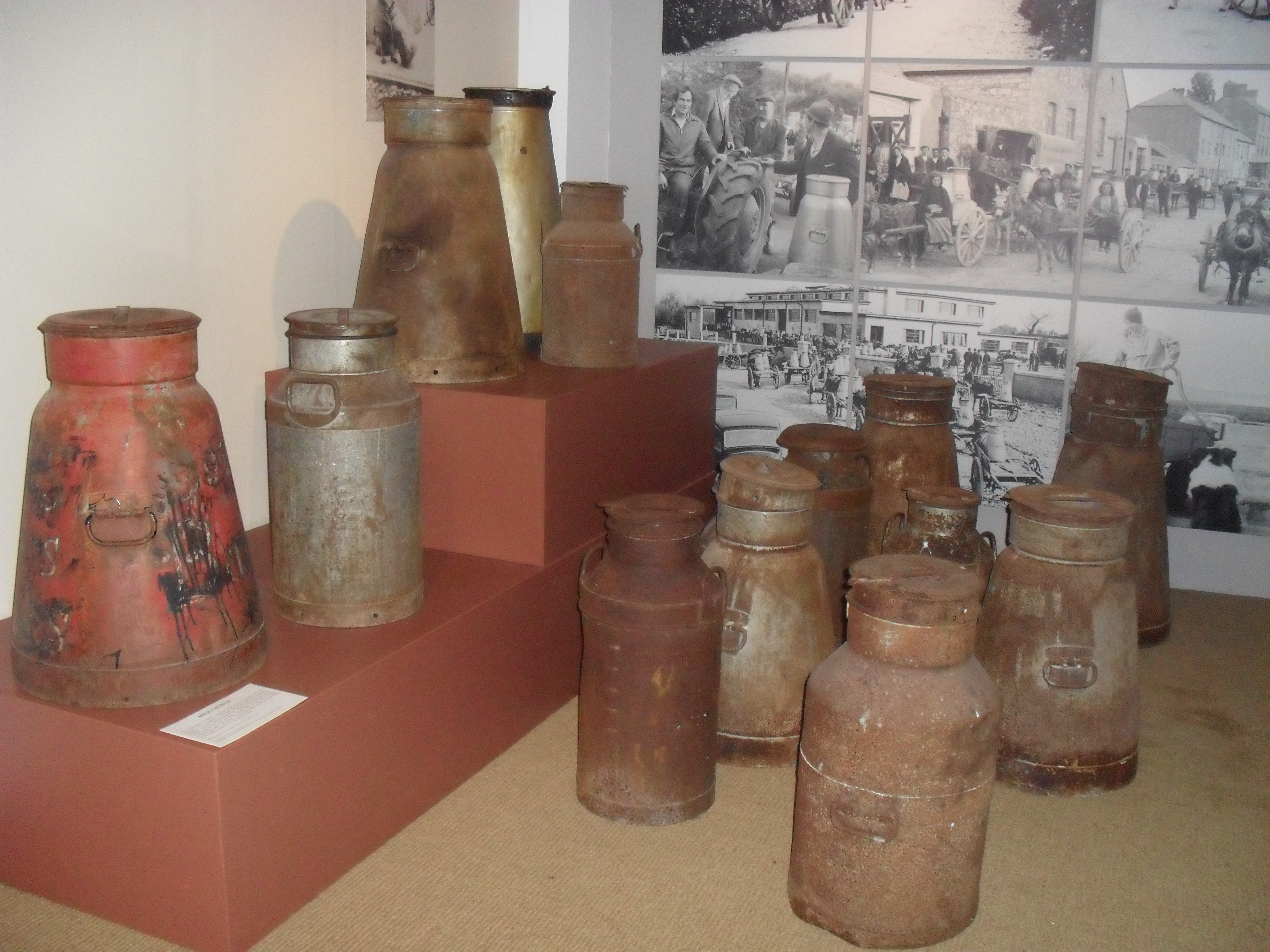 Metal churns, Cork Butter Museum